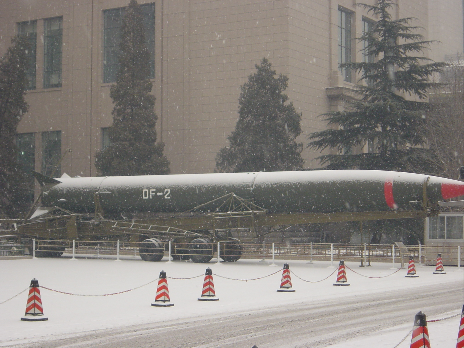 DF-2 missile in Beijing military museum